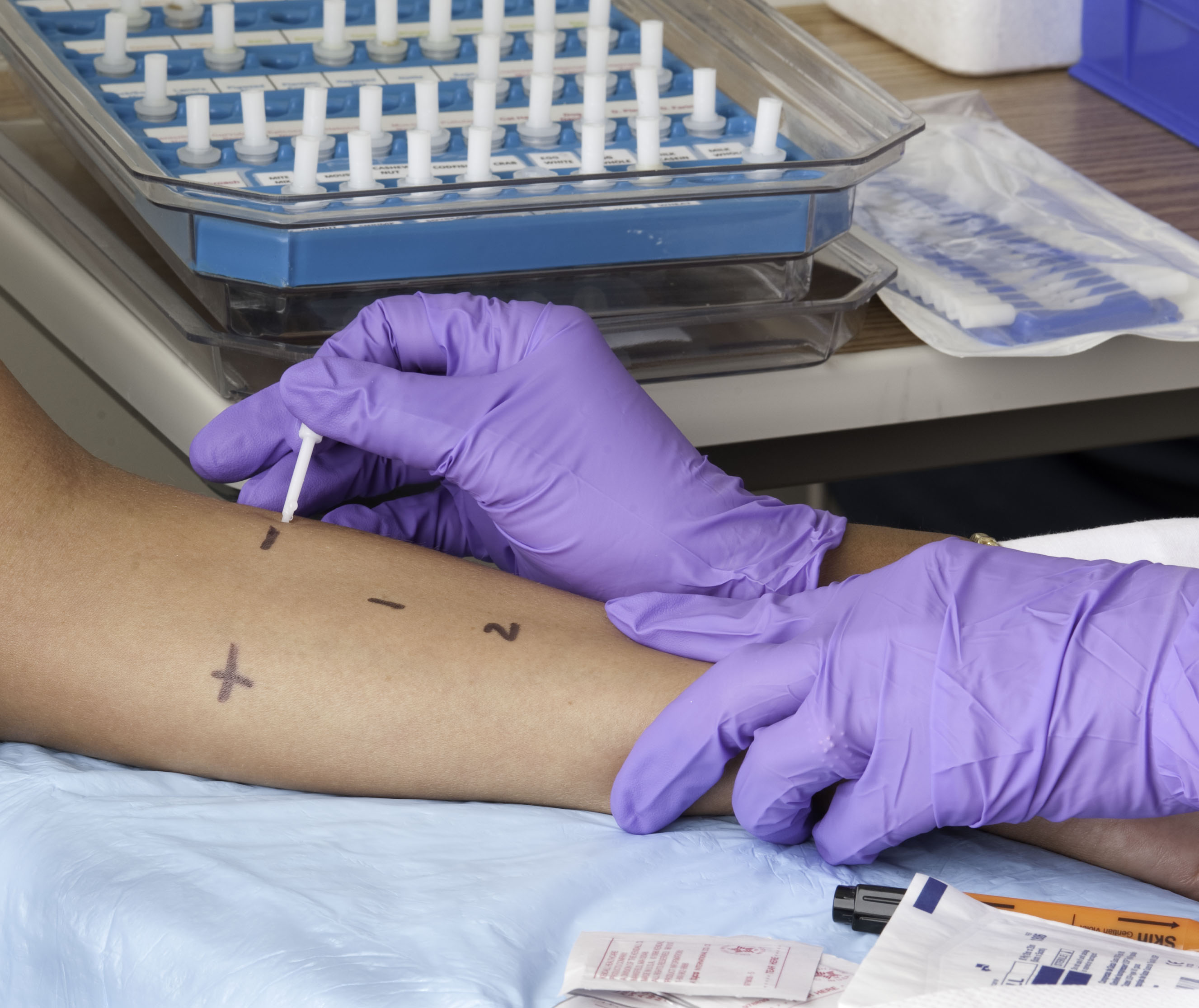 A person receiving a skin prick test (SPT). An SPT is performed by using a needle to place a tiny amount of liquid allergen just under the skin of the forearm. SPTs are safe and the results, a raised bump with redness around it (called a wheal and flare), usually appear within 30 minutes. A number of allergens can be tested with an SPT, including ragweed, house dust mite, cat, grass, egg, milk, and peanut. National Institute of Allergy and Infectious Diseases (NIAID)